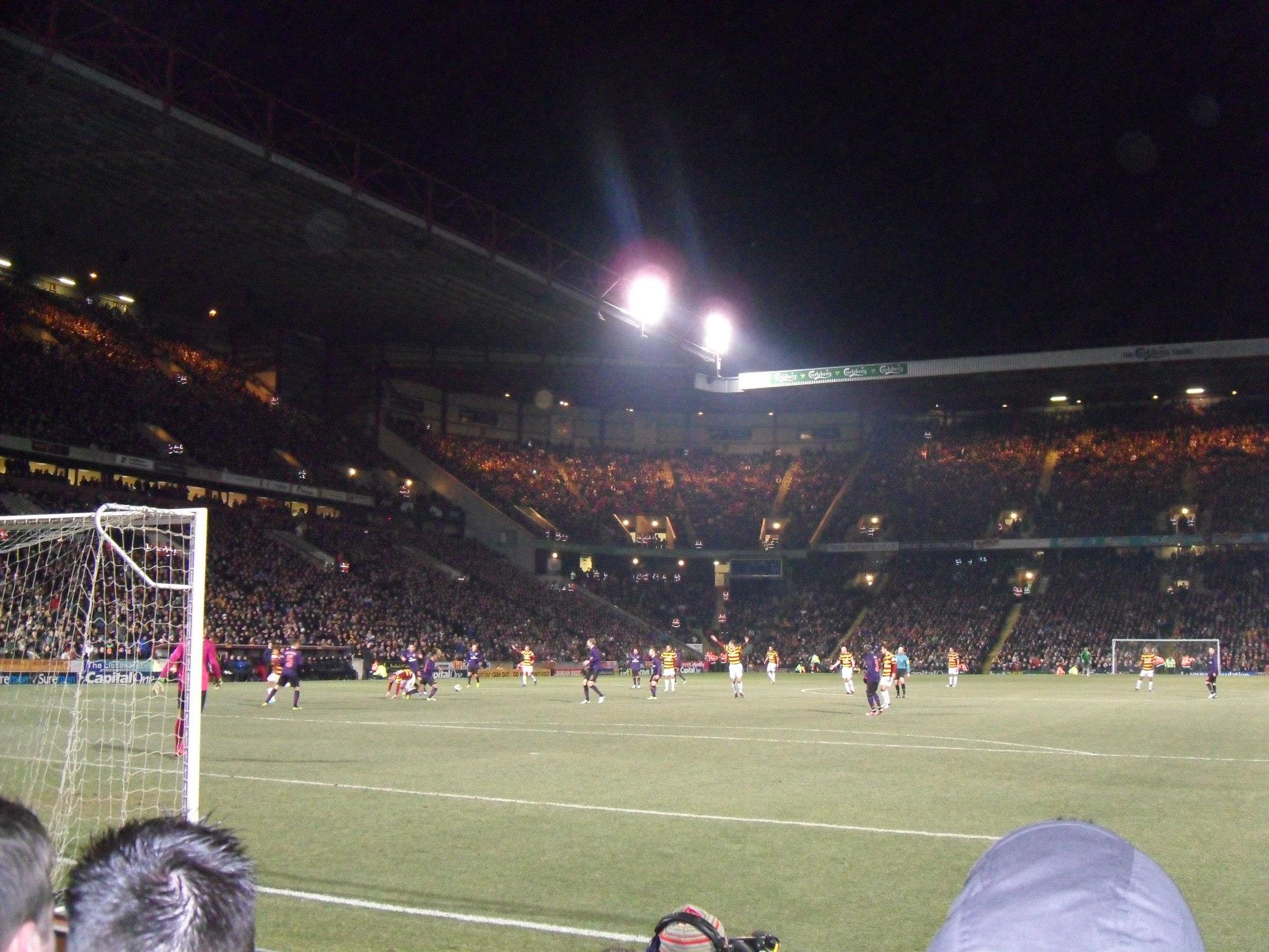 23,971 fans watching Bradford City A.F.C. vs Arsenal F.C.